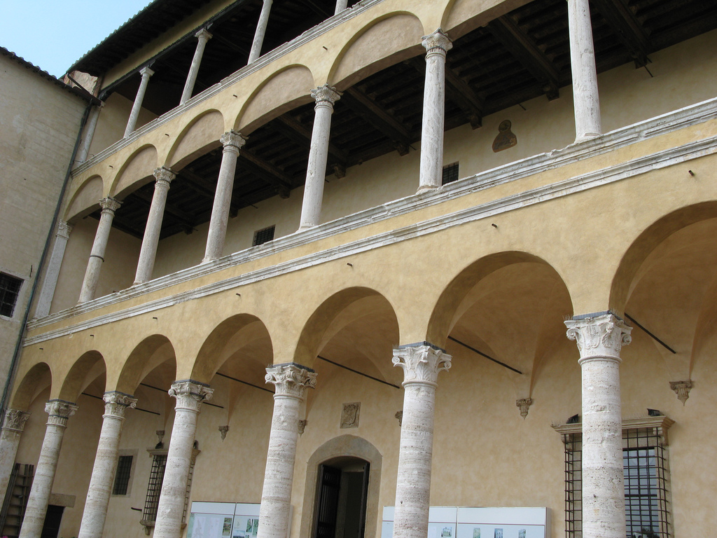 see above